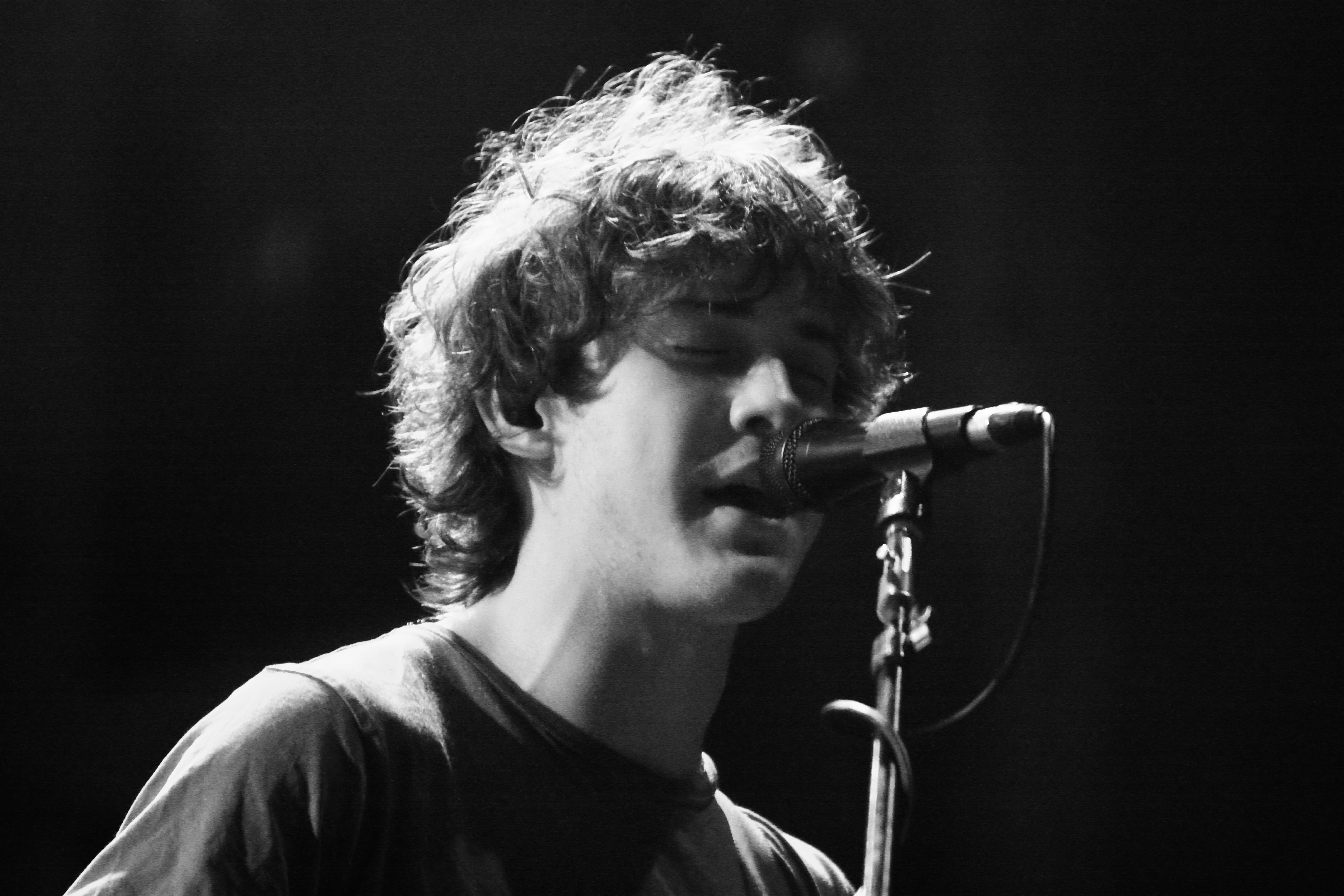 MGMT at Treasure Island Music Festival 2009